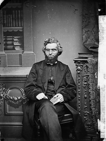 Image of Revd John Roberts (Ieuan Gwyllt)